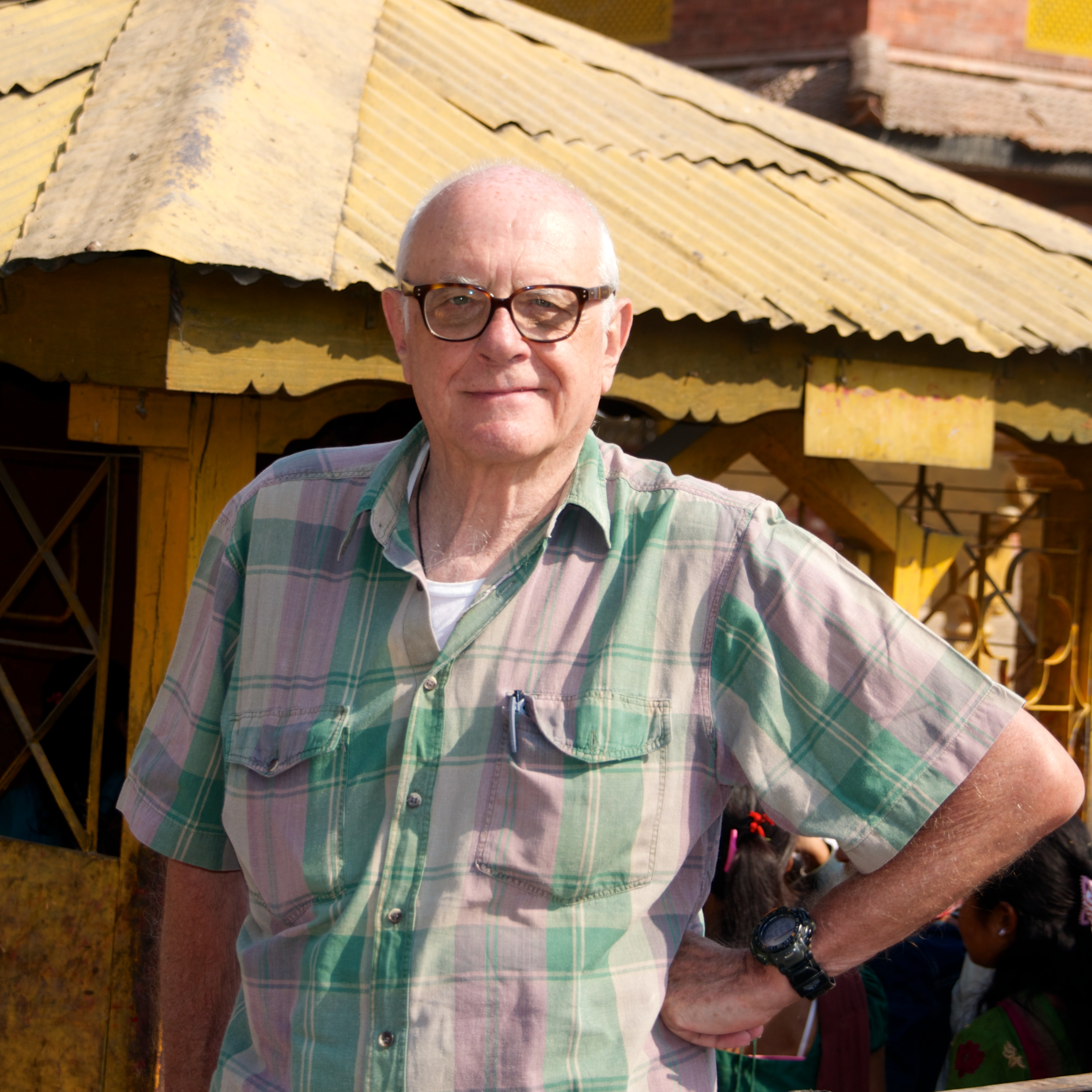 Italian writer Mario Biondi on his 75th birthday in Budhanilkantha, Kathmandu, Nepal